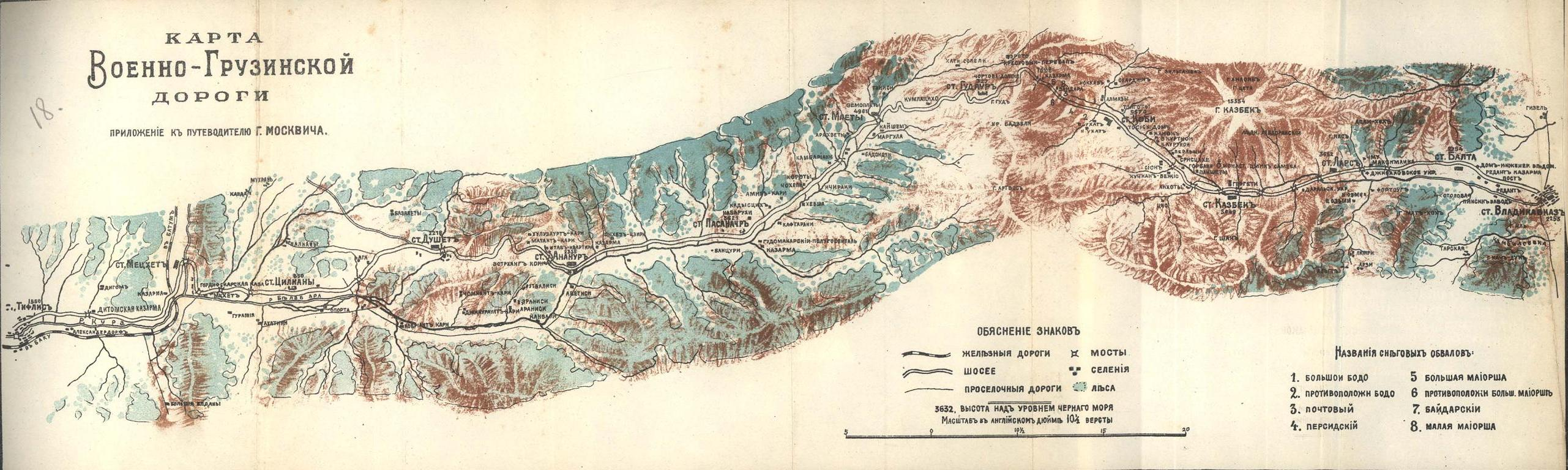 Georgian Military Road map. From the Caucasus guidebook of 1913